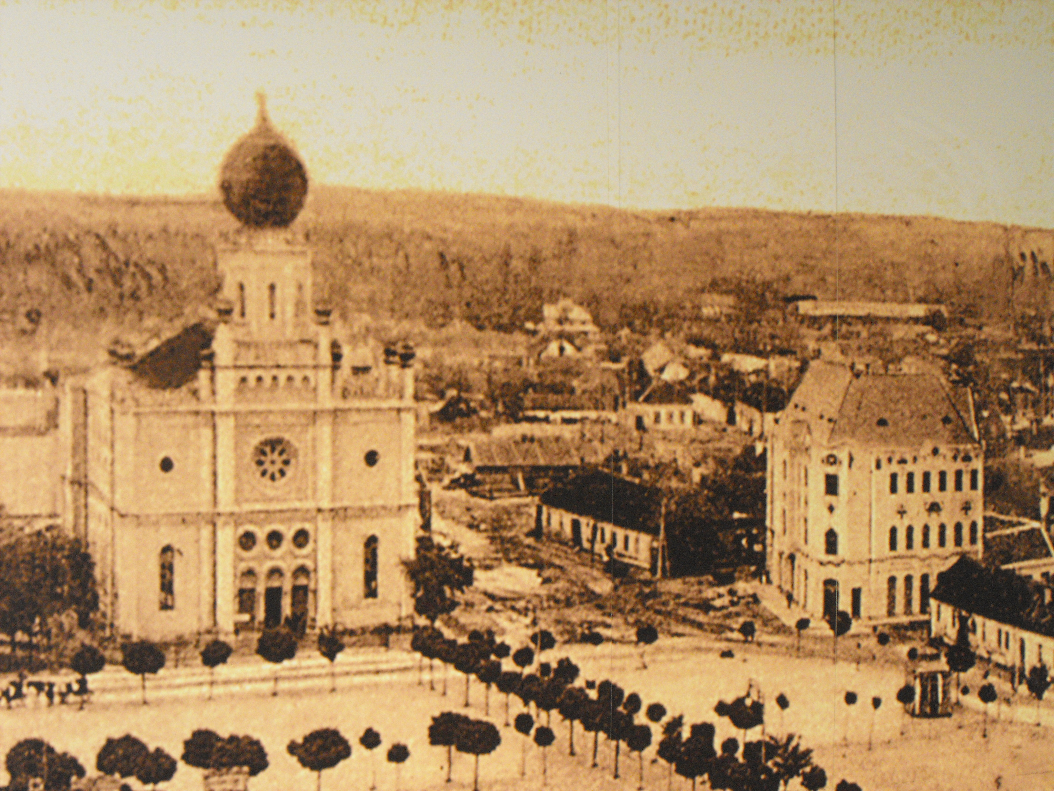 The House of Science and Technics (then synagogue) and the Cifrapalota (Fine Palace) in Kecskemét